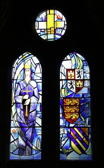 Queen Eleanor Memorial Window. Contemporary stained glass window by glazier Stephen Lewis installed in All Saints' church in January 2008, dedicated by Dean Emeritus of Southwell, The Very Reverend David Leaning on 25th May 2008. In the left lancet - Eleanor of Castile, Queen consort of King Edward I In the right lancet - The arms of Lyon & Castile, England and Ponthieu There are 12 crosses, symbolic of the Eleanor Crosses erected by Edward I following her death and the cross in the plate window as the central symbol of Christianity. The Inscription reads Queen Eleanor, beloved wife of King Edward I of England, died November 28th 1290 in Harby A gift from the people of Harby to commemorate 2000 years of Christianity and to the Glory of God